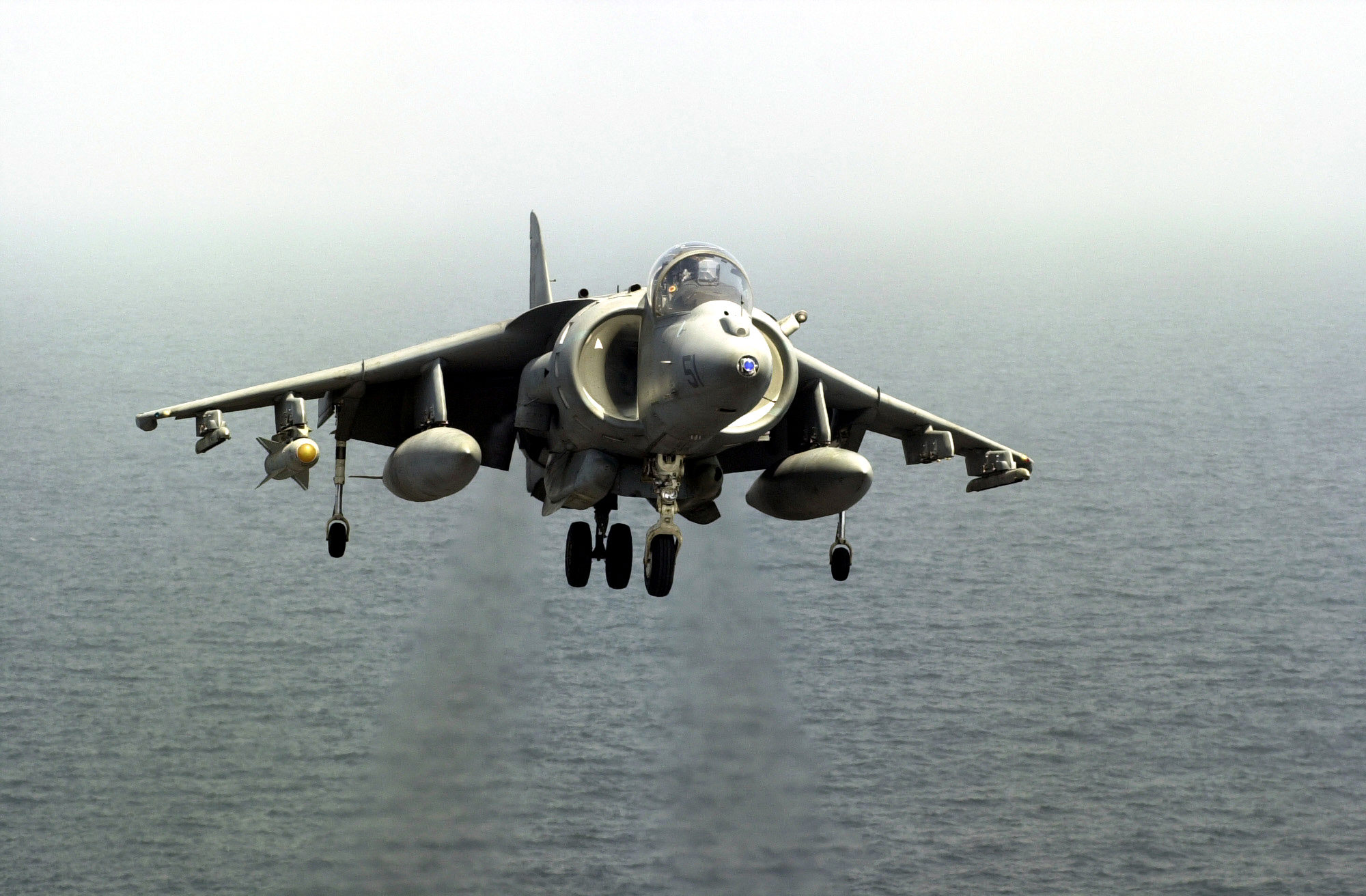 The Arabian Sea (Oct. 13, 2001) -- A Marine AV-8B Harrier fighter aircraft makes its approach for a landing aboard the San Diego-based amphibious assault ship USS Peleliu (LHA 5). The Peleliu Amphibious Ready Group (ARG), along with several Aircraft Carrier battlegroups, are deployed and conducting missions in support of Operation Enduring Freedom. Photo by Master Chief Photographer's Mate Terry Cosgrove. (RELEASED)